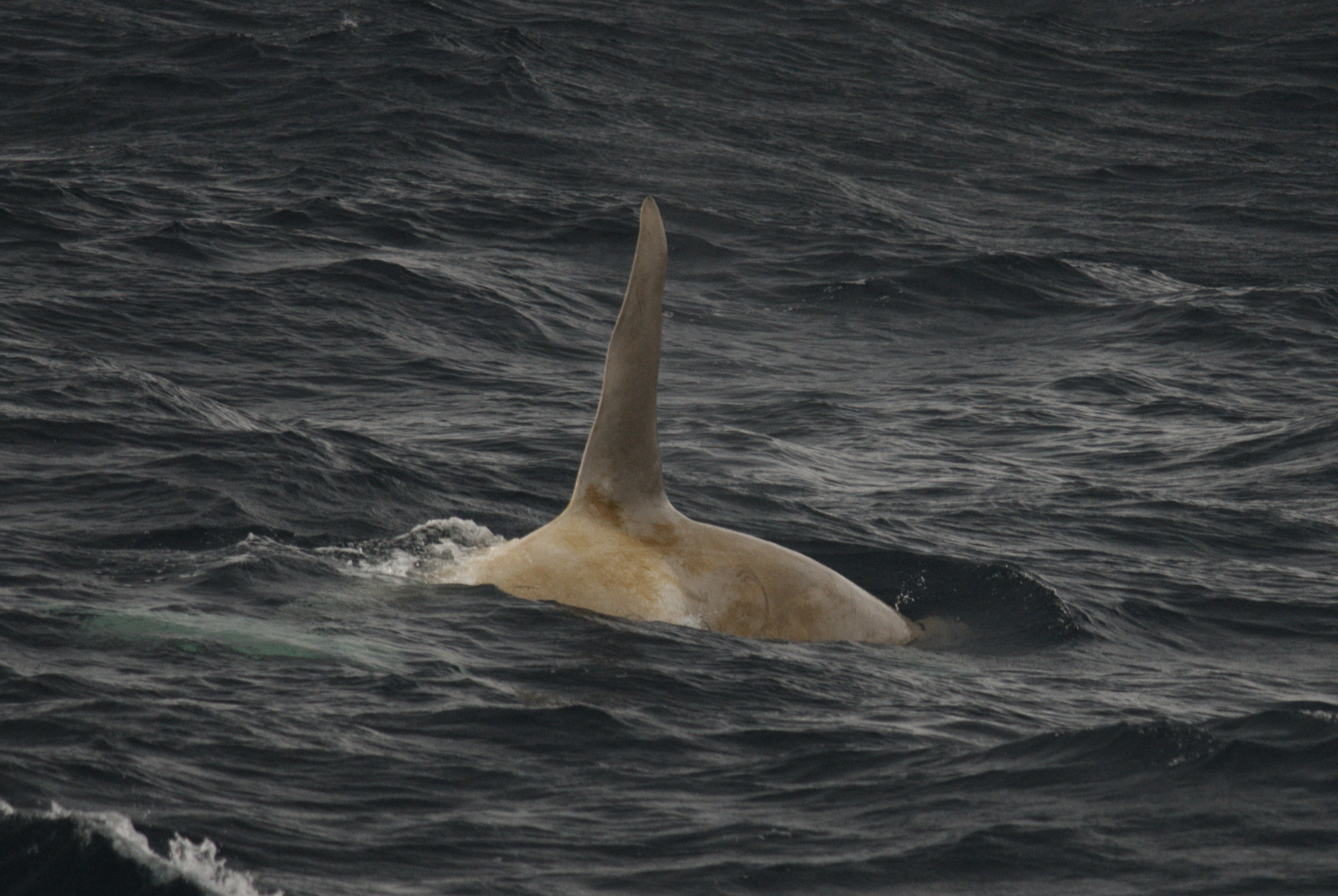 This white killer whale (Orcinus orca) was spotted with its pod about two miles off Kanaga Volcano, part of Alaska’s Aleutian Islands, on February 23, 2008. At the time, Kodiak-based Oscar Dyson was on a research expedition for the National Oceanic and Atmospheric Administration's Alaska Fisheries Science Center, assessing pollock fish stocks near Steller sea lion haulout sites. This white whale is a fish-eating type of killer whale, as were all the killer whales photographed on the expedition. Fish-eating killer whales are the most frequently seen whales around the Aleutian Islands during the summer. The winter sightings represent important evidence that they may be common year-round.